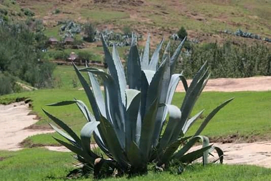 This is an image with the theme "Africa on the Move or Transport" from: Lesotho